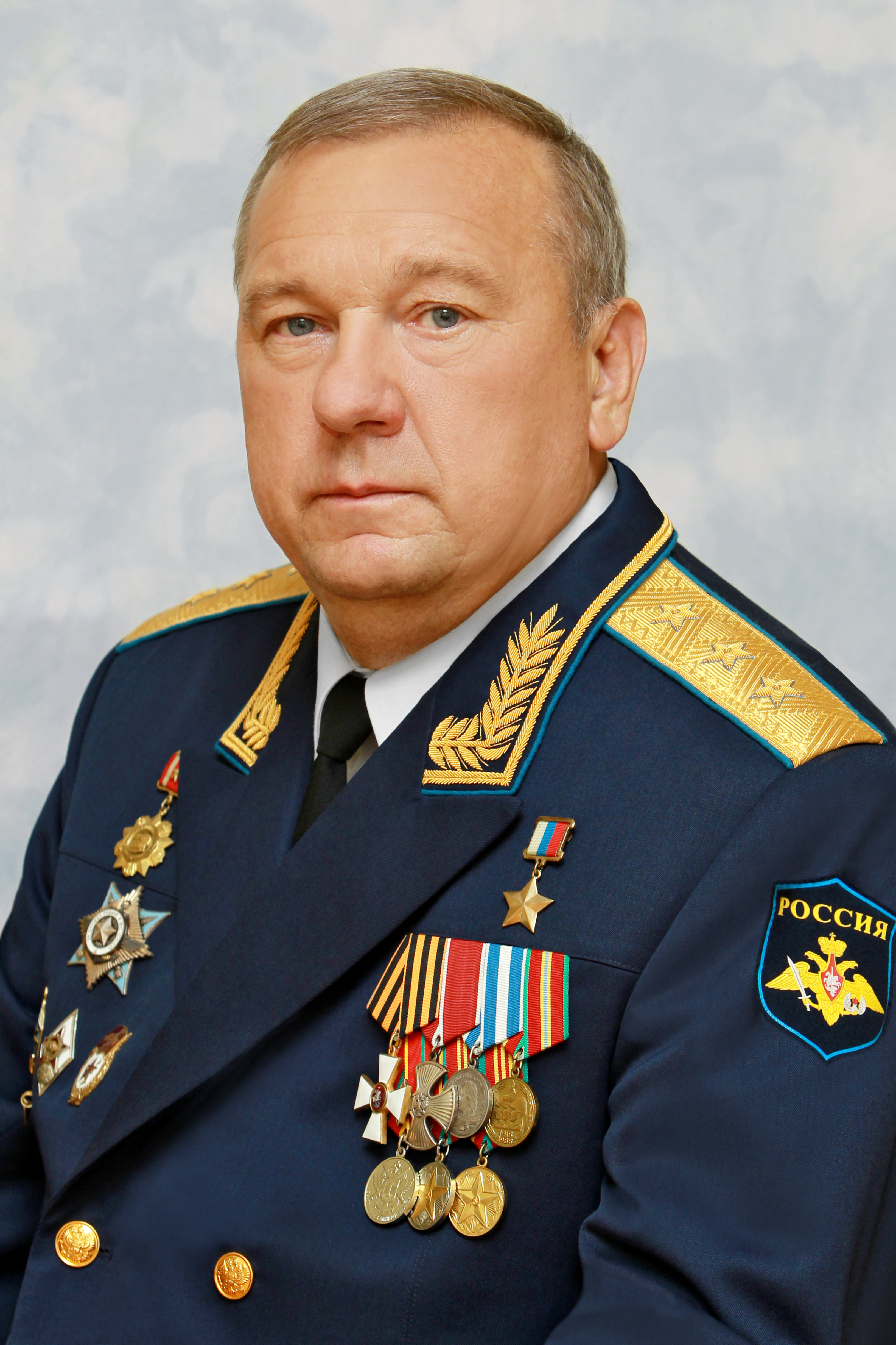 19th Russian Airborne Troops Commander-in-Chief, Col. Gen. Vladimir Shamanov (in office since May 24, 2009.)